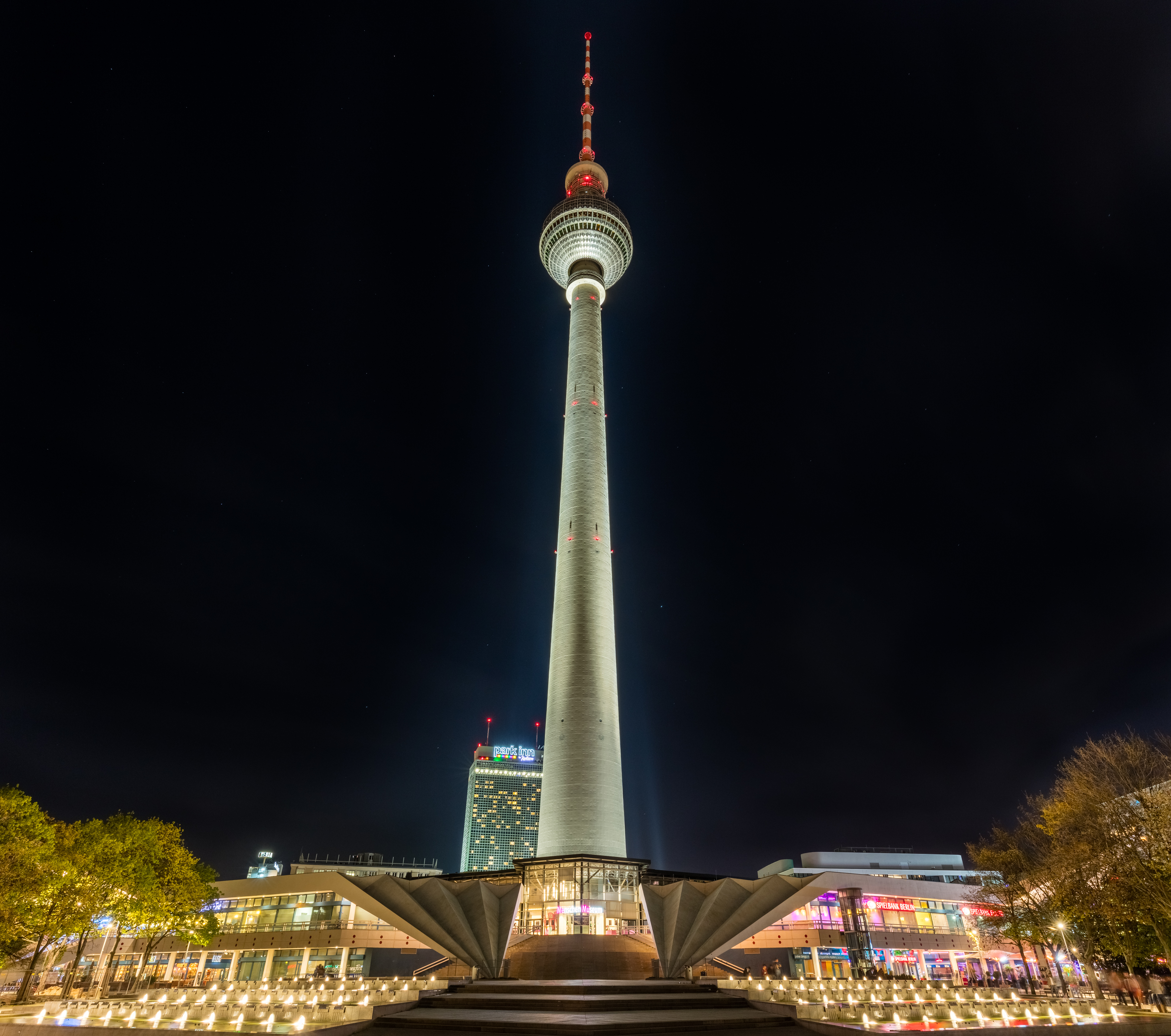 View of the Fernsehturm (TV tower) from the bottom, Berlin, Germany. The tower, located close to Alexanderplatz in the center of the capital, was built between 1965 and 1969 by the government of the German Democratic Republic (East Germany). It was intended to be both a symbol of Communist power and of the city and remains today as one of its landmarks.